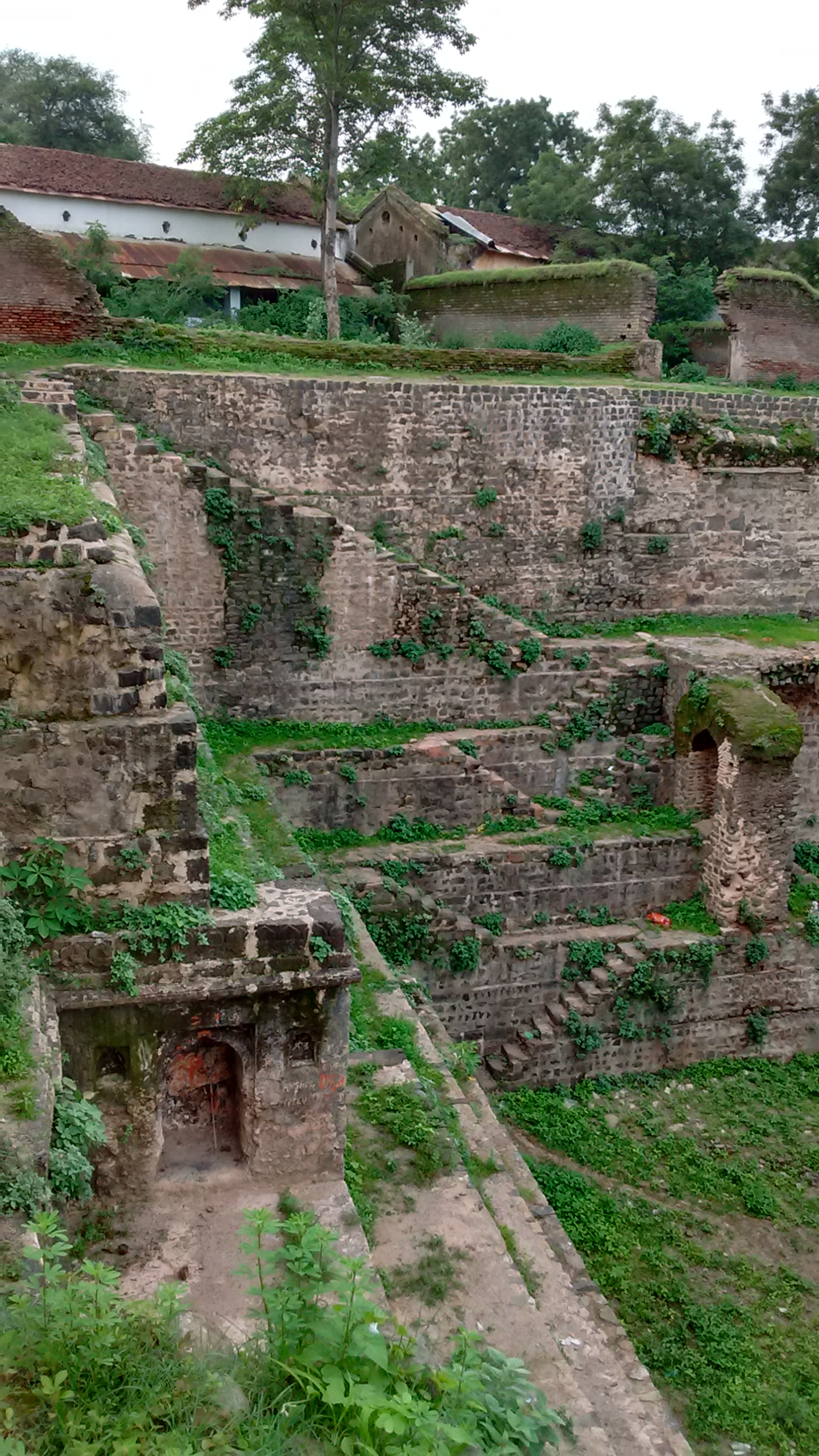 Bawari (Water Storage Body) Dhar Fort, Dhar, Madhya Pradesh